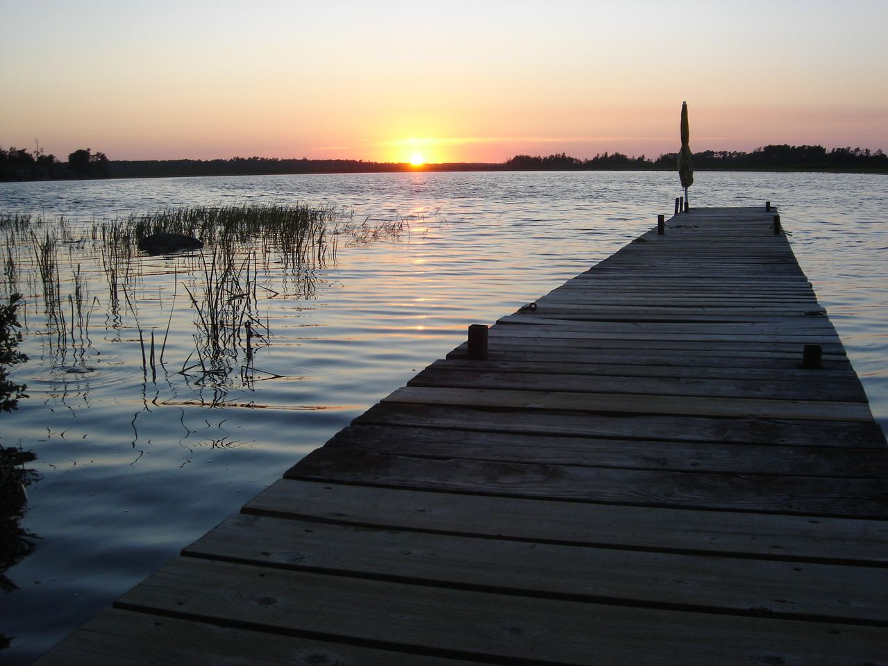 Nestor R. I took this picture at White Lake, Manitoba, Canada, late July 2006